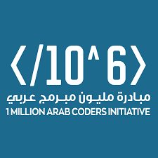 one million coder initiative Logo